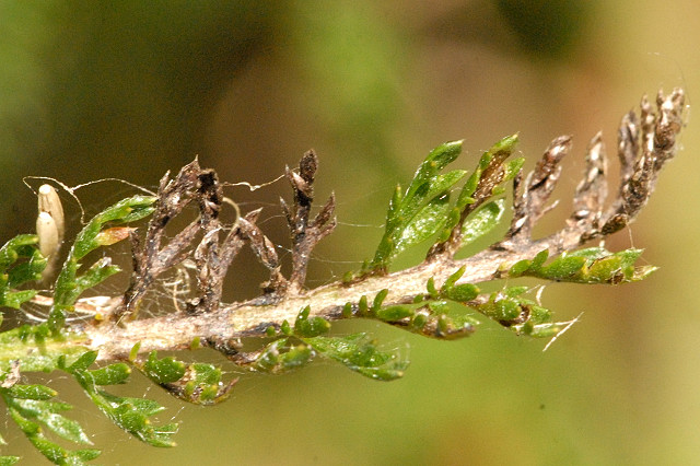 Entyloma achilleae from Commanster, Belgium. If you think this is a different taxon, please contact James Lindsey.